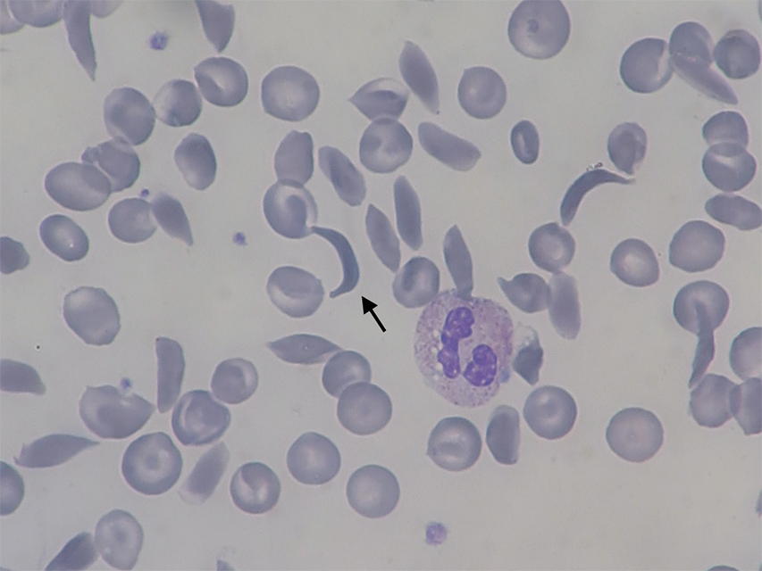 Sickle-cells (drepanocytes) found in sickle cell anemia as a result of hemoglobin S polymerization.